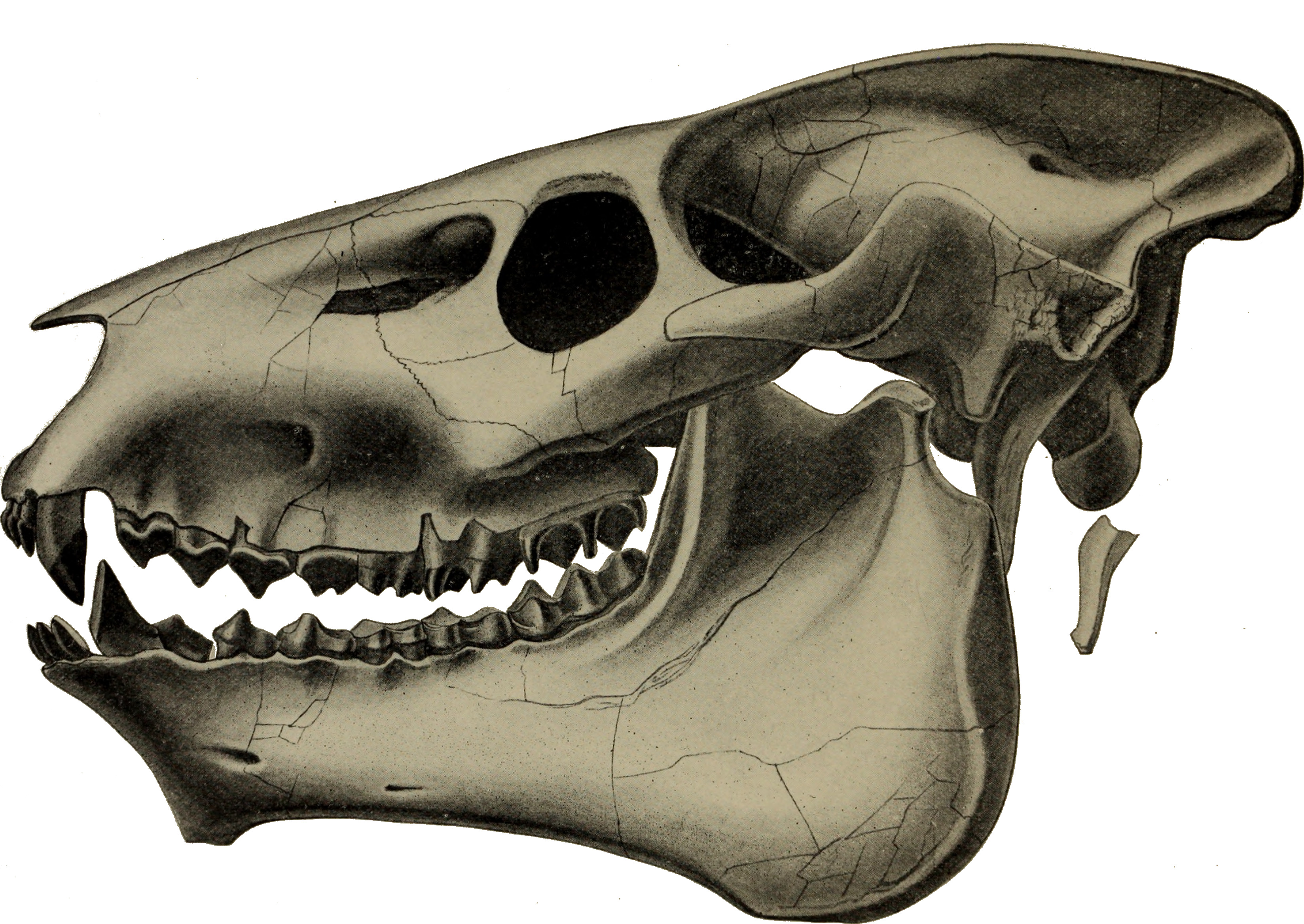 Title: Annals of the Carnegie Museum Year: 1901 (1900s) Authors: Carnegie Museum; Carnegie Museum of Natural History Subjects: Carnegie Museum; Carnegie Museum of Natural History; Natural history Publisher: [Pittsburgh : Published by authority of the Board of Trustees of the Carnegie Institute] Text Appearing Before Image: ' Text Appearing After Image: ^